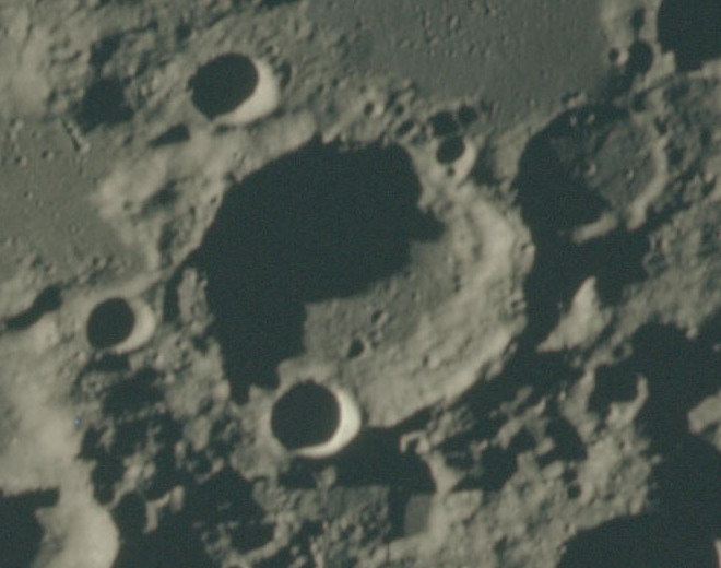 Anuchin, Mare Australe, on the far side of the moon. North at top.